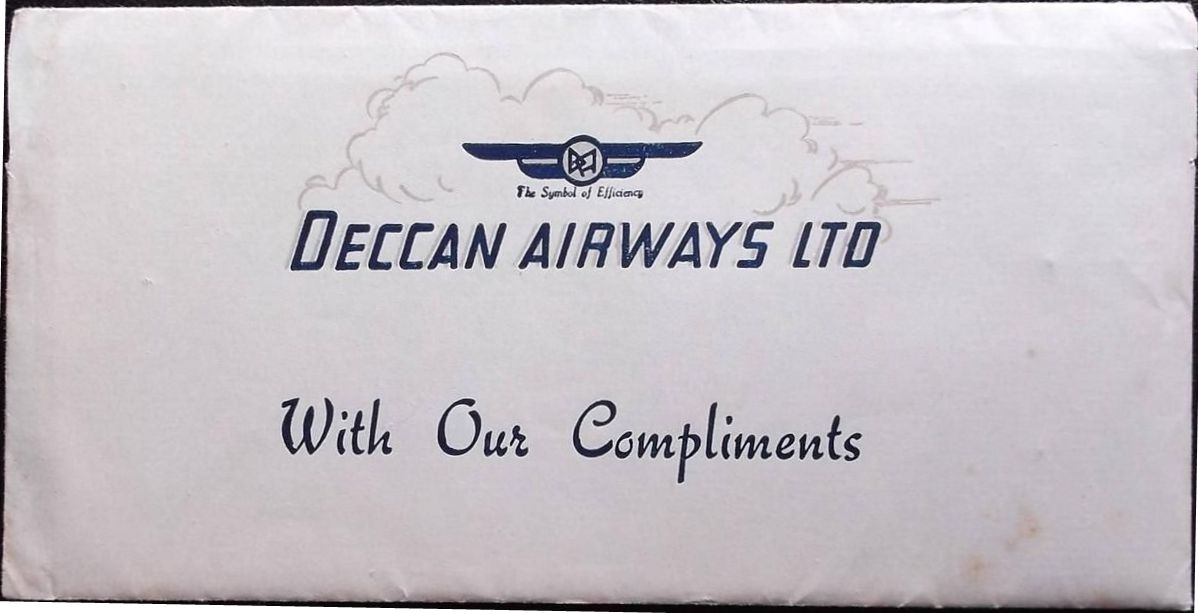 Envelope for air ticket of Deccan Airways in 1952